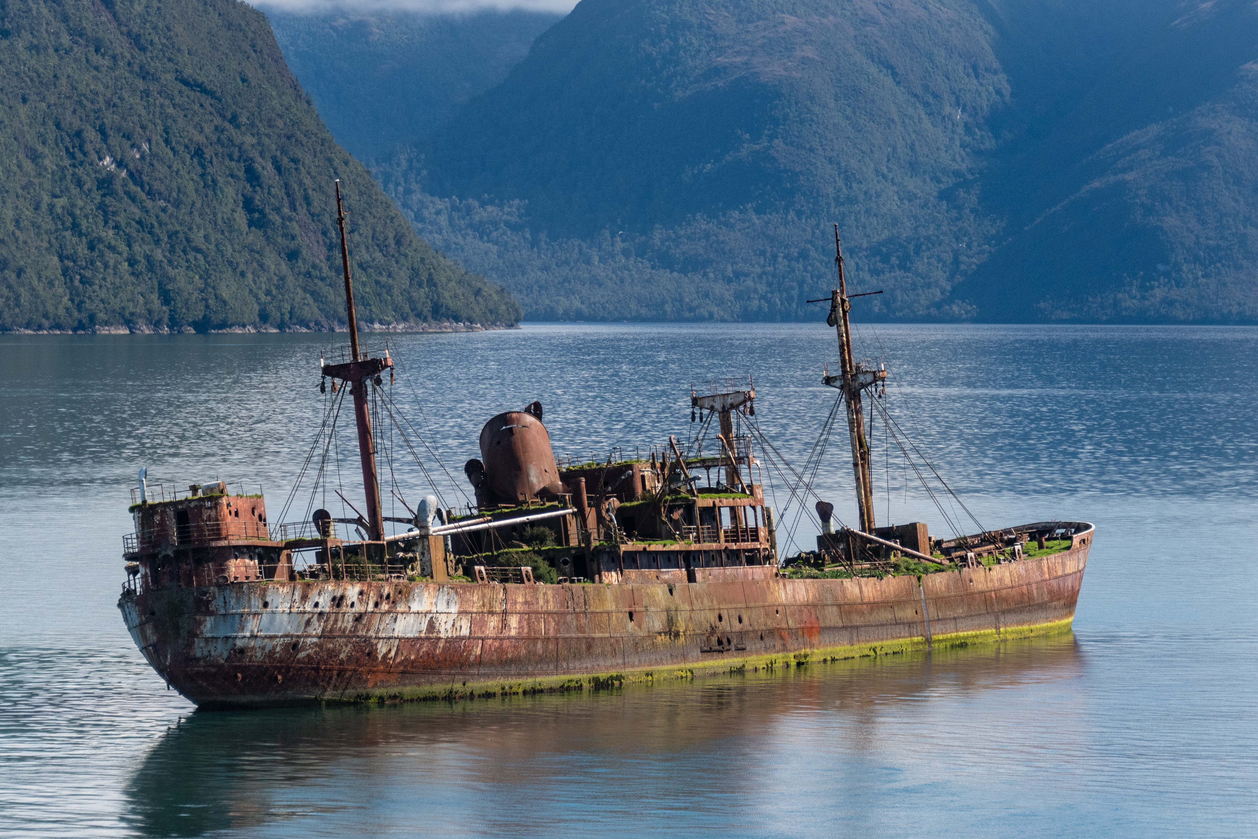 Wreck of a former cargo ship carrying bagged sugar from Santos, Brazil, the CAPITÁIN LEONIDAS - IMO 5542705, ran aground on April 7, 1968 in the fjords of Canal Messier (Messier Channel), north of Angostura Inglesa (English Narrows) and the town of Puerto Eden.Ship is shown on March 14th, 2019, sitting firmly on the flattened top of a submerged mountain called Bajo Cotopaxi (Cotopaxi Bank). The water is 200 meters deep just 100 meters from this wreck positioned at 48°46'19.826" S 74°27'9.606" W.